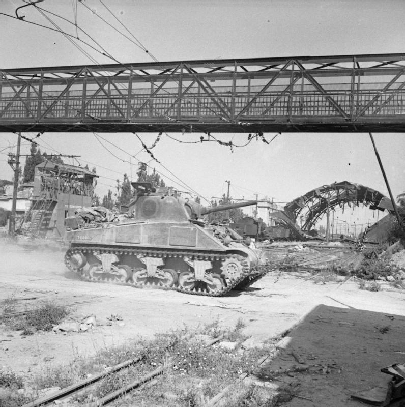 The British Army in Italy 1944 A Sherman tank of 16th/5th Lancers passes through a railyard in Arezzo, 15 - 16 July 1944.